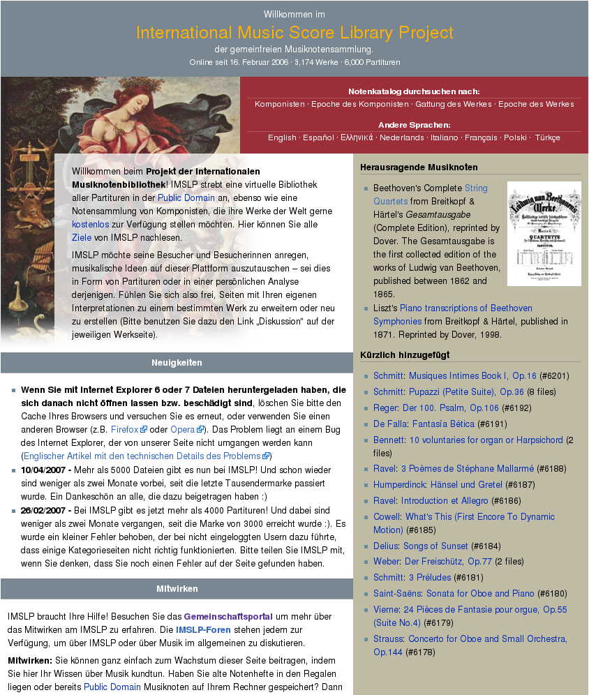 Screenshot of the International Music Score Library Project (IMSLP) homepage (German version) which I have designed